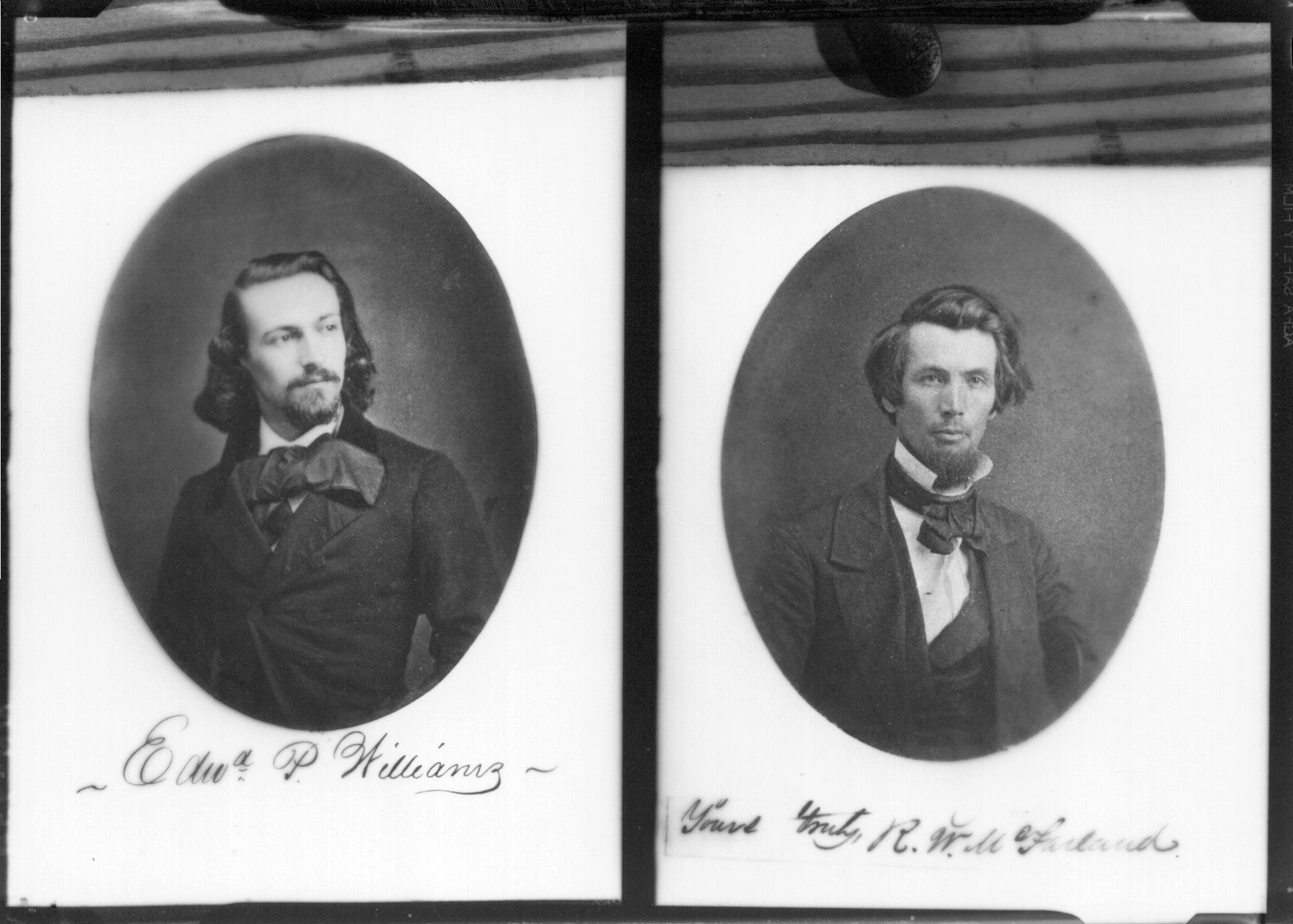 Persistent URL: Subject (TGM): Students; Teachers; Mathematicians; Universities and colleges; Portrait photographs; Composite photographs; Location: Oxford, Ohio Copy negatives of campus locations, people and events used to produce lantern slides for Dr. Alfred H. Upham; [left] Edward P. Williams, Miami student (1858); [right] Robert W. McFarland, Miami professor of mathematics (1858).